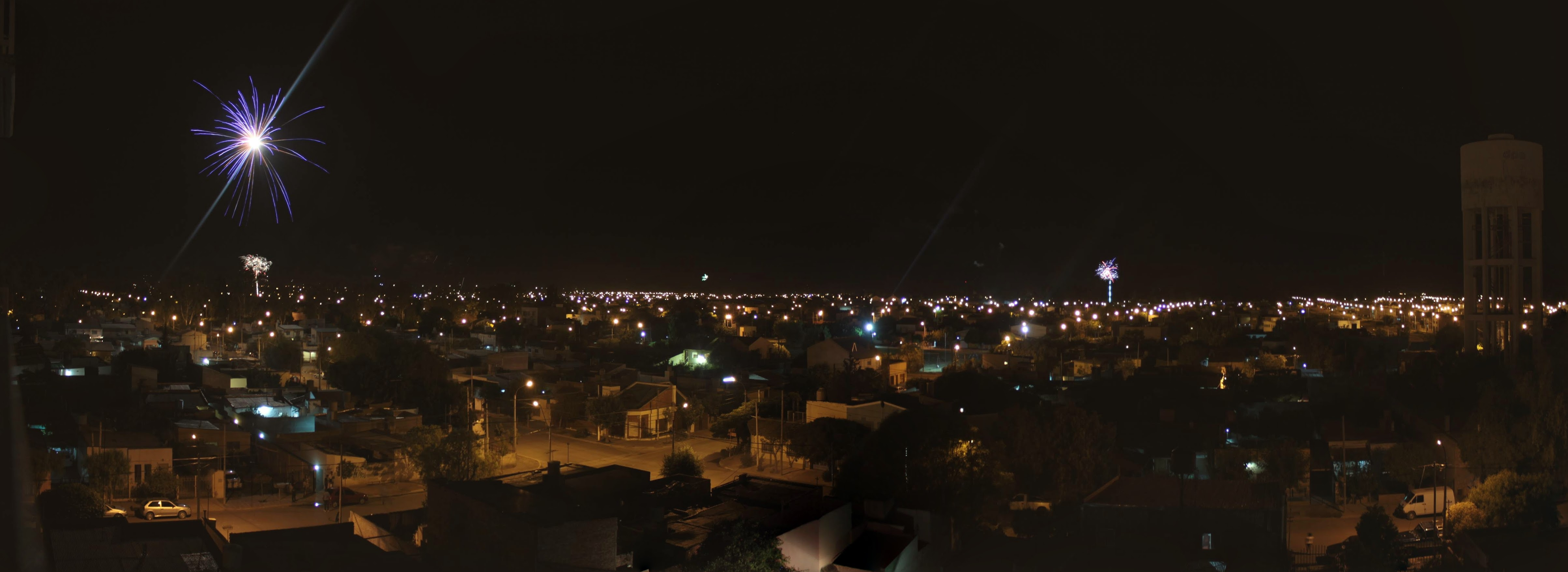 A panoramic picture of General Roca at night shot from the intersection of Av. Mendoza with Gral. Miguel de Guemes. Some fireworks can be seen.